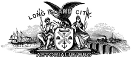 Greater Astoria Historical Society logo, based on the coat of arms of Long Island City.